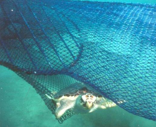 Loggerhead Turtle escaping a trawl net equipped with turtle excluder device (TED)